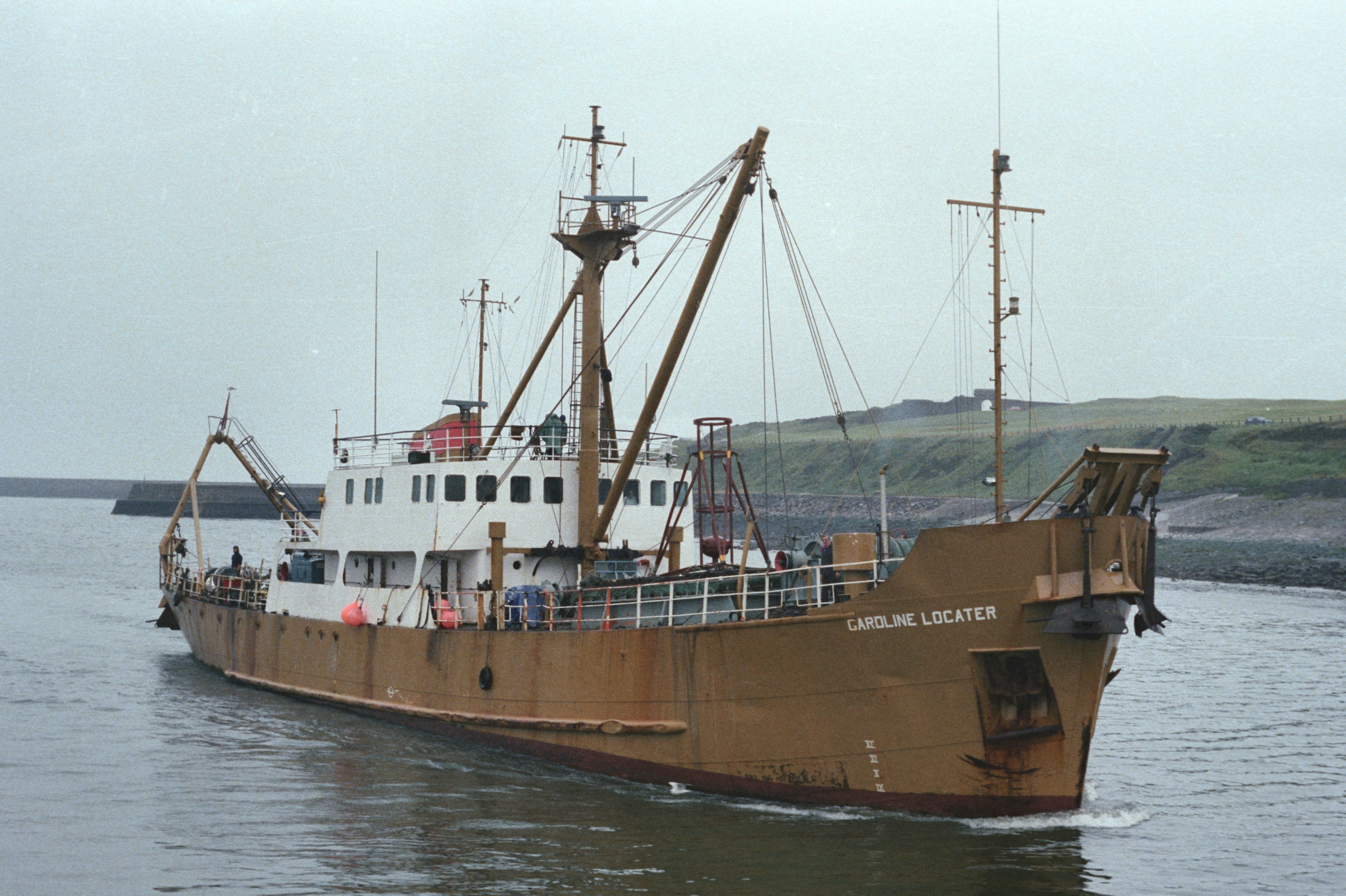 Inbound to Aberdeen